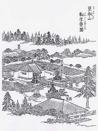 Kangakuryo勧学寮,the University of Buddhism and Librally in Edo(17-19c),byRyouo Dokaku